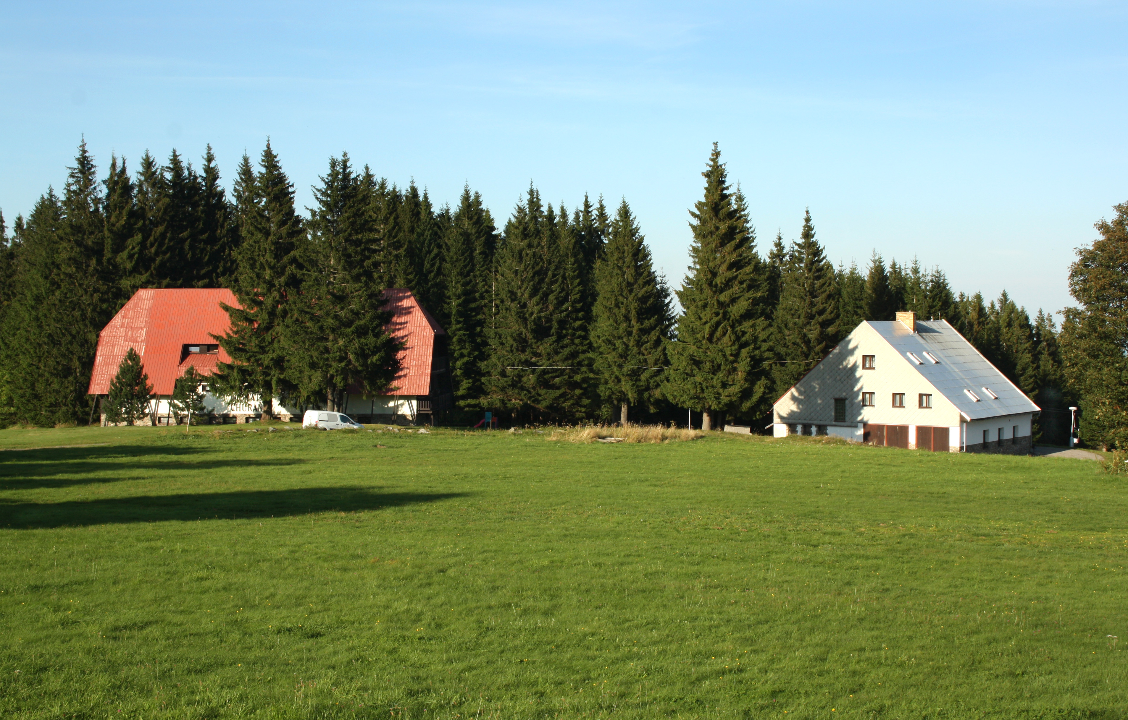 Zadov, part of Stachy village, Czech Republic